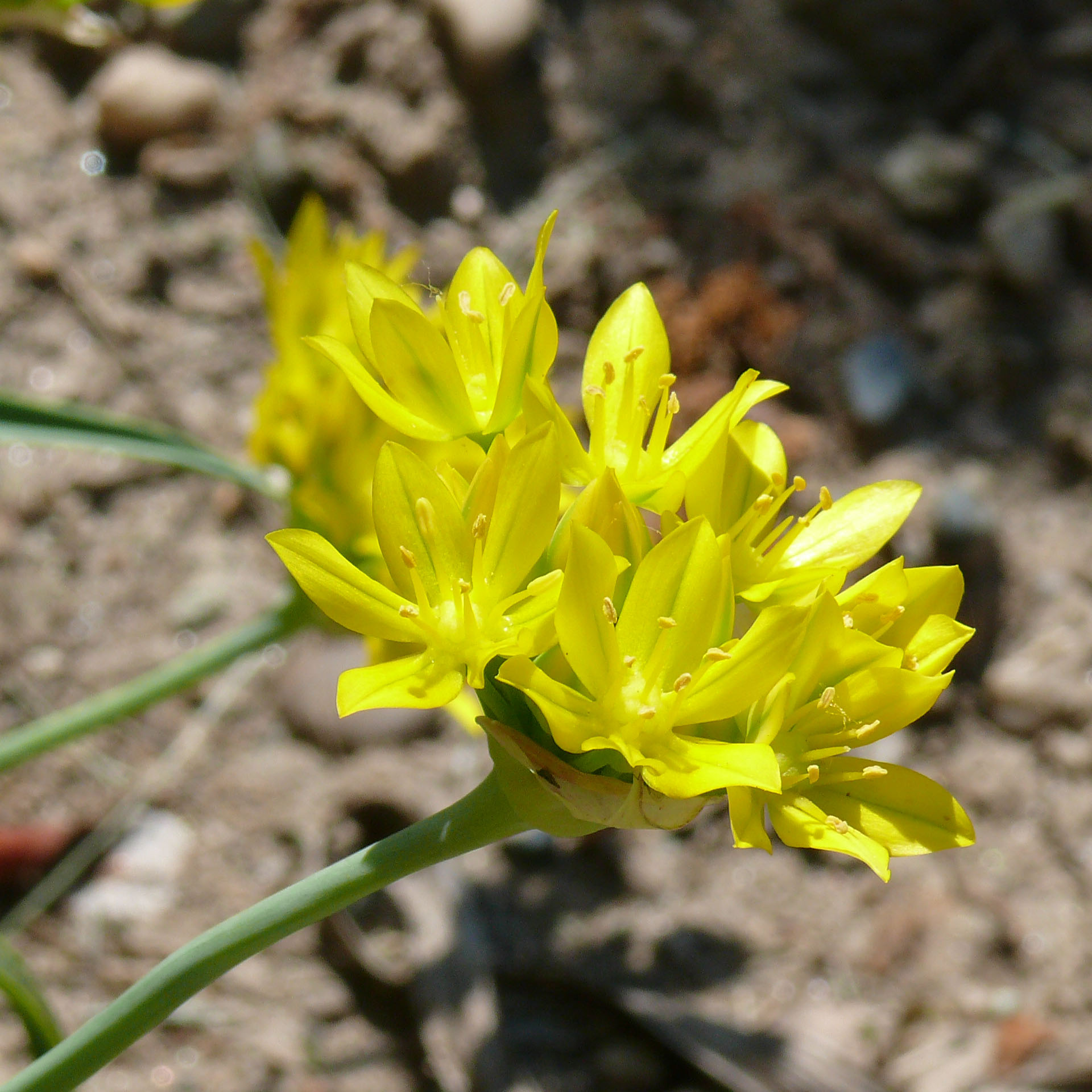 Allium moly L., flowers (close)